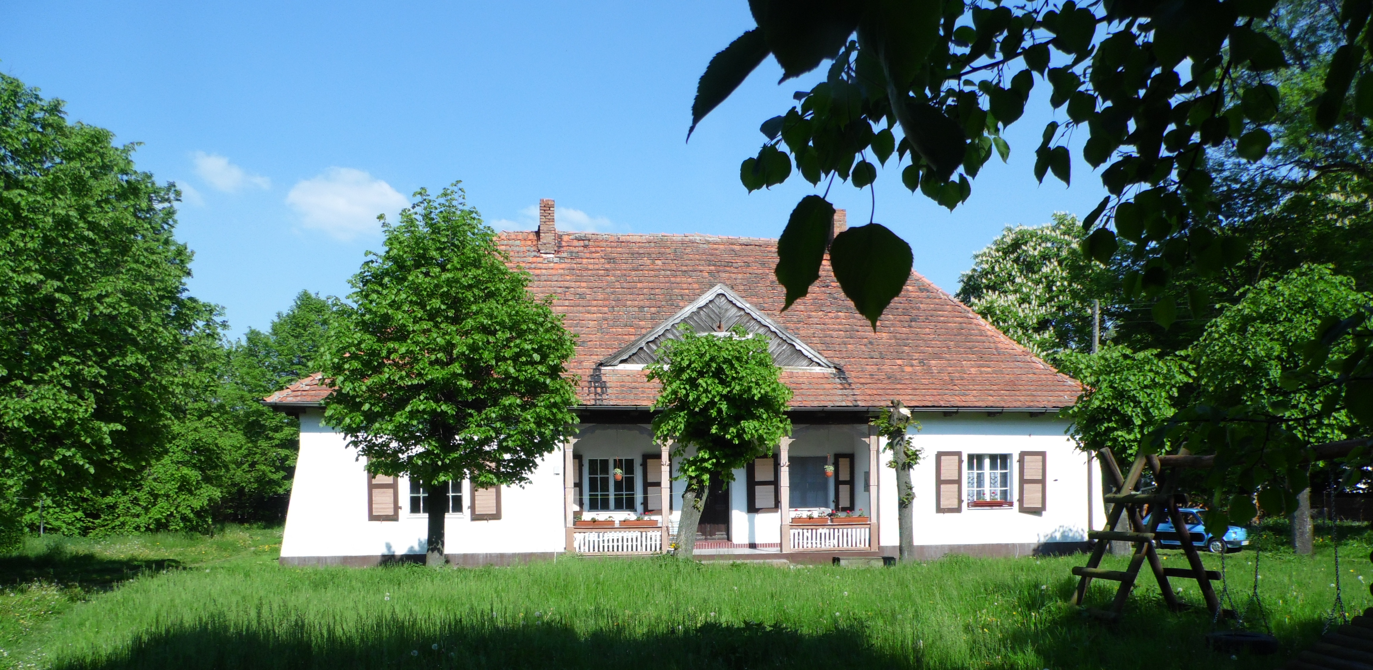 Outbuilding 2 mid-nineteenth century Brylewo / Leszno district / province. Greater Poland / Poland